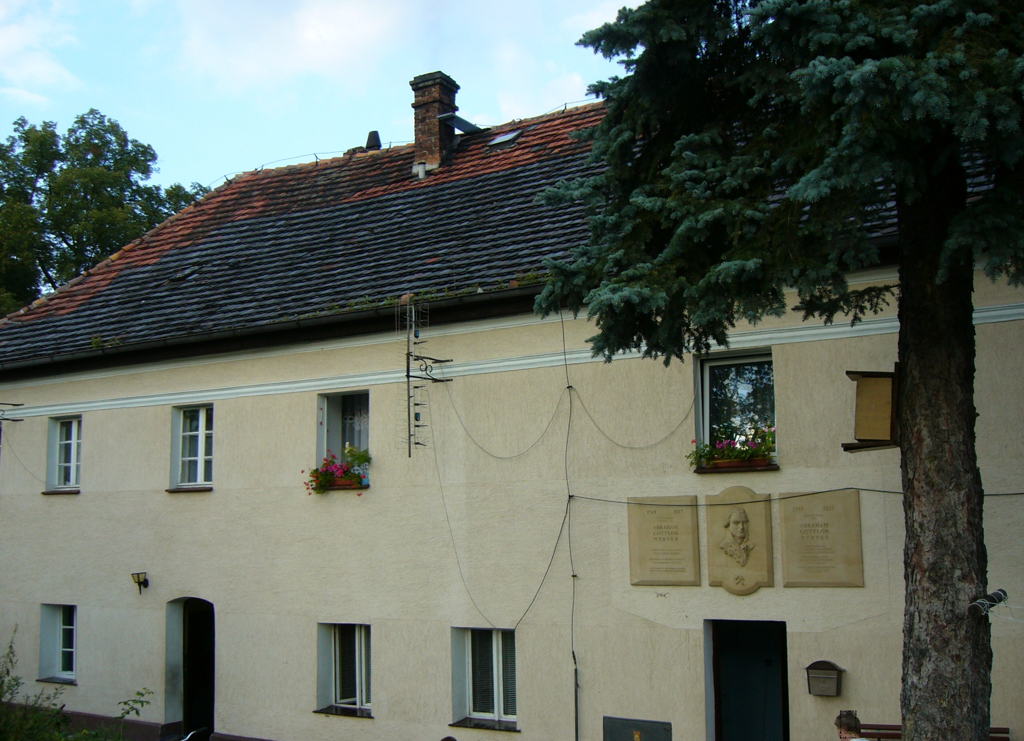 house productive of G. W. Werner - german first geologist